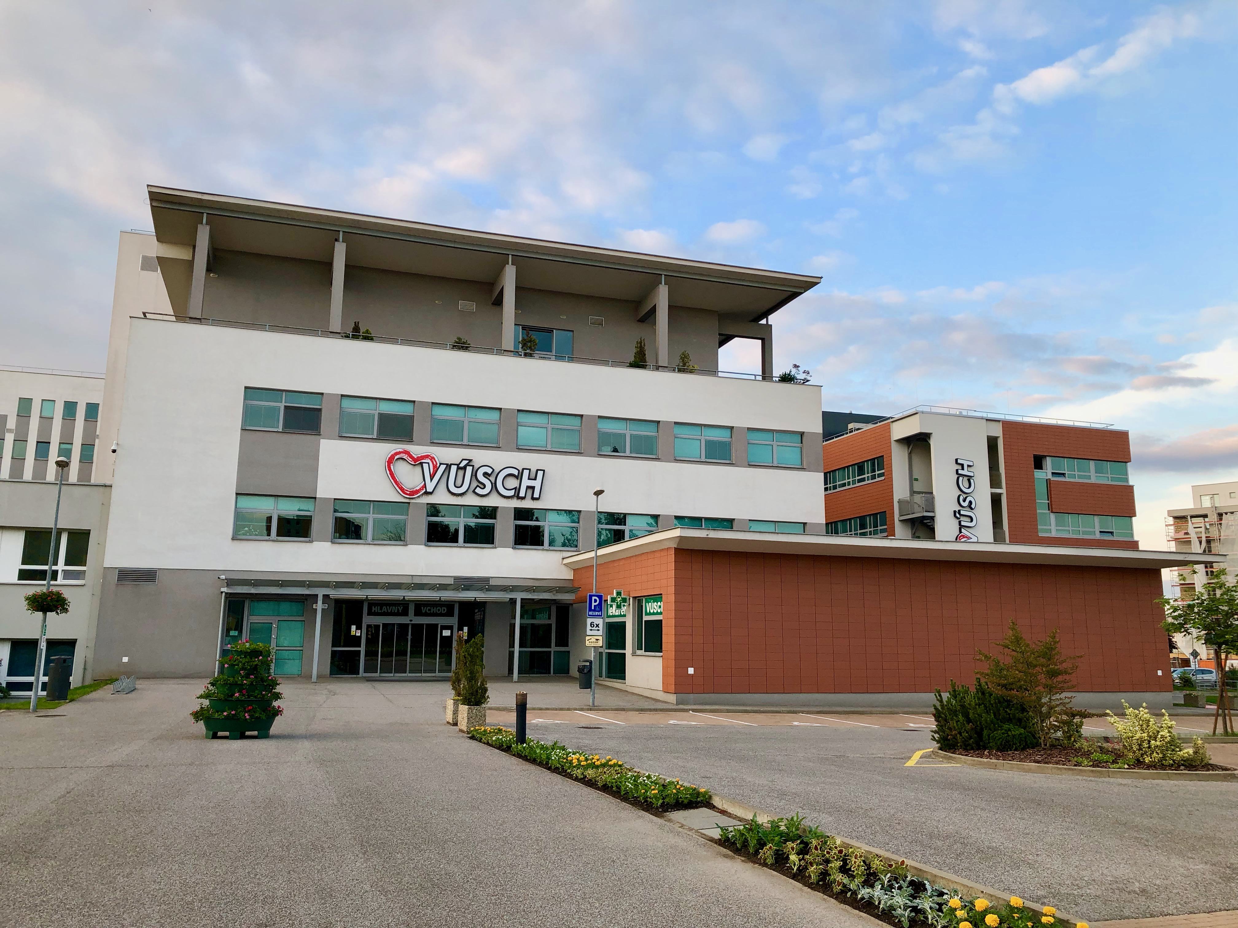 Buildings of East Slovak Institute of Heart and Vascular Diseases located in Košice